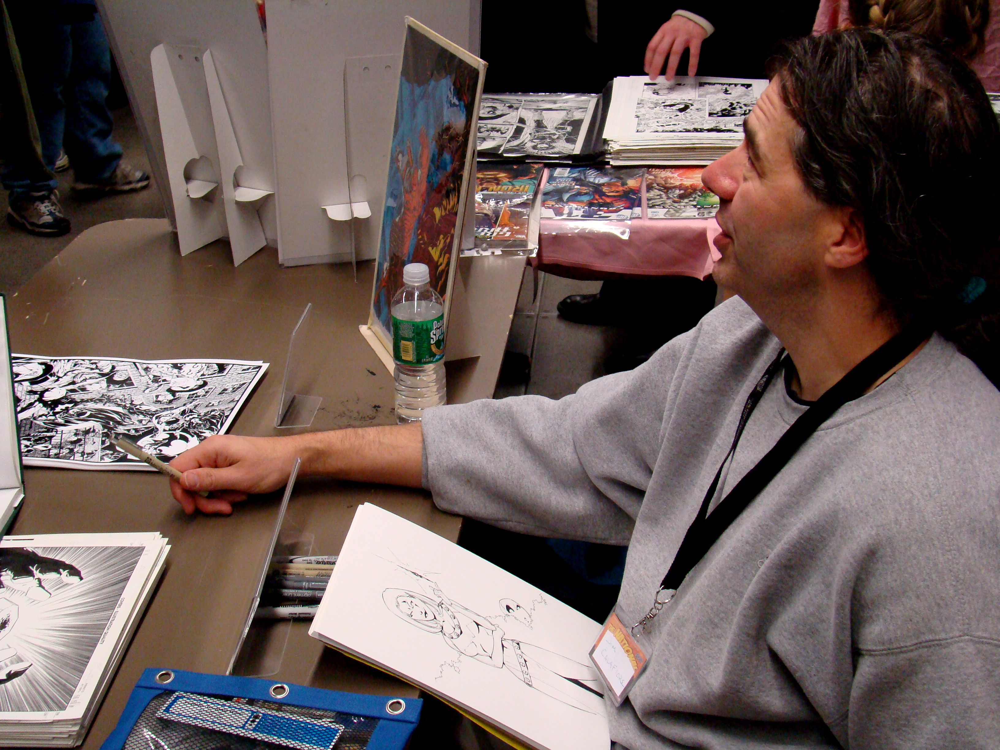 artist Jim Calafiore in 2007 with a drawing of Blink, character of the comic books Exiles